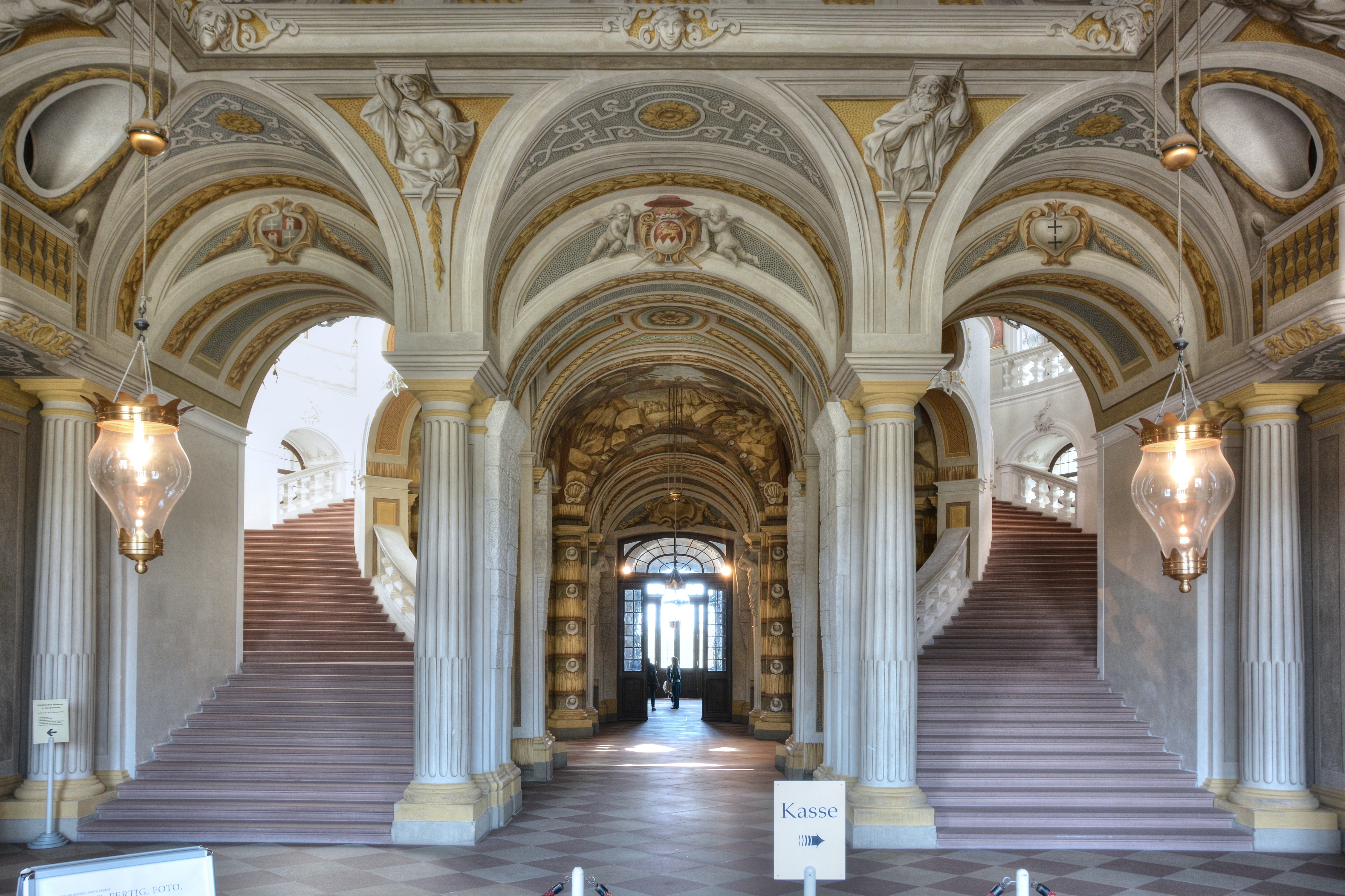 Bruchsal Castle, staircase